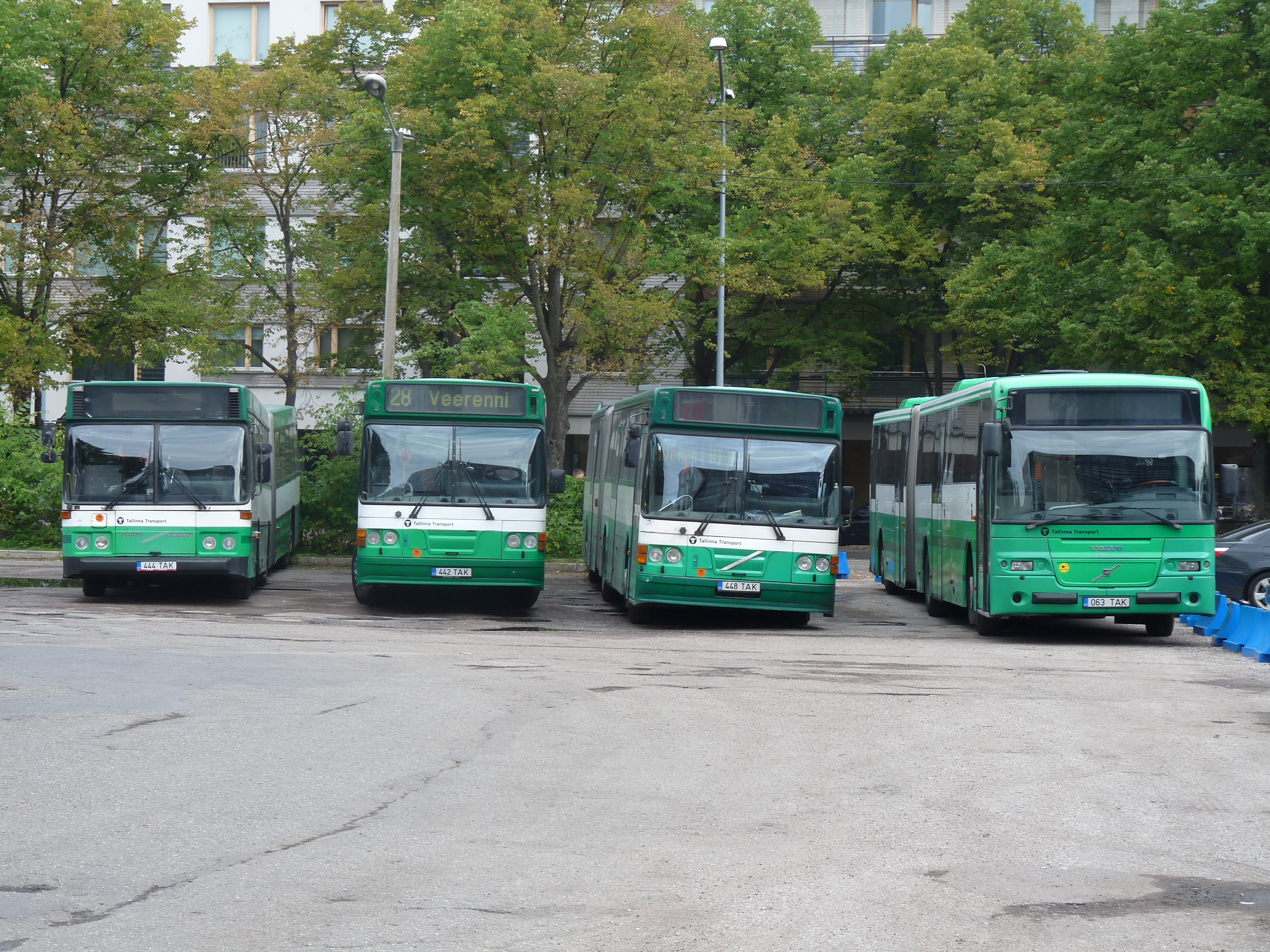 Volvo buses in Tallinn, Estonia